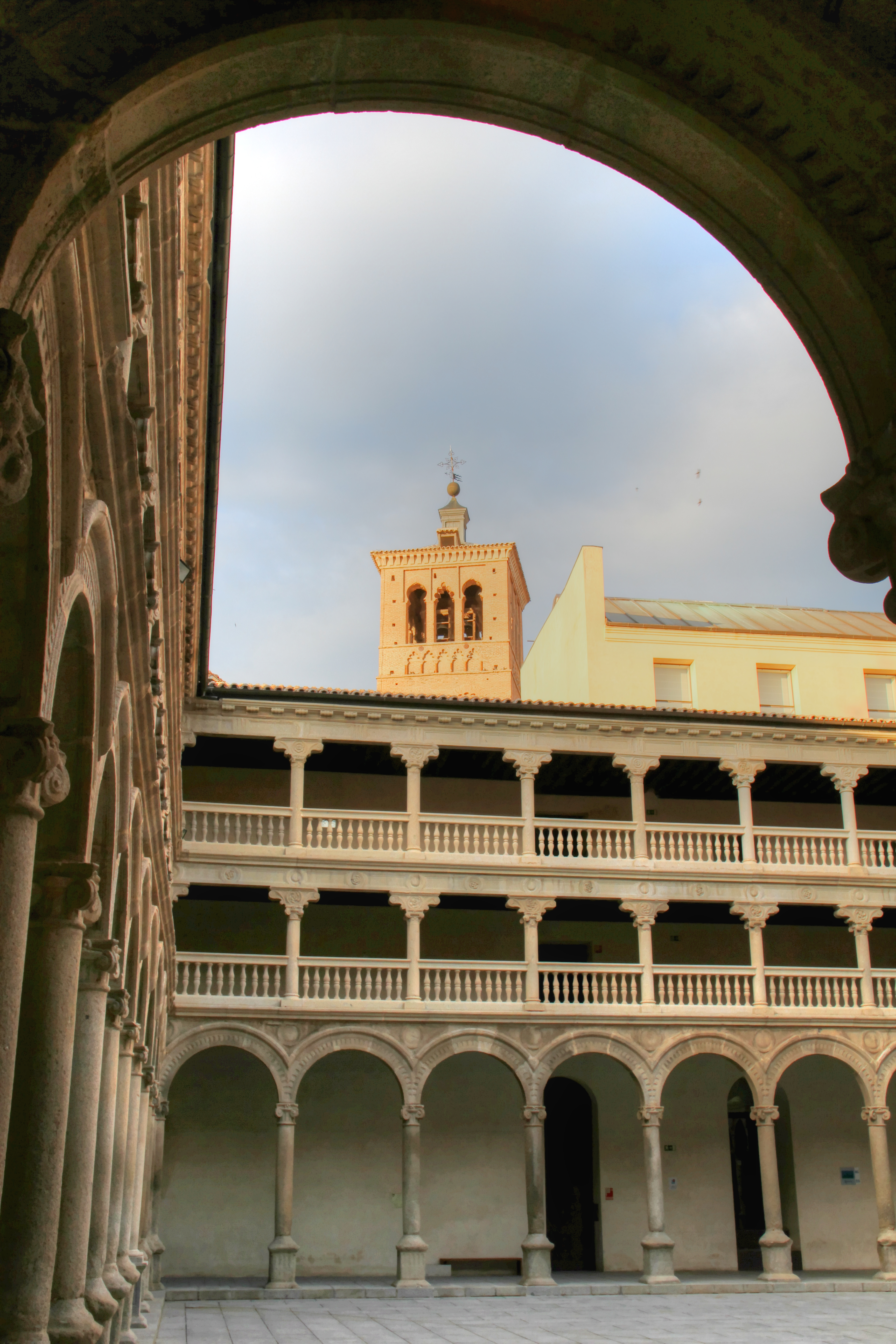 Toledo, España